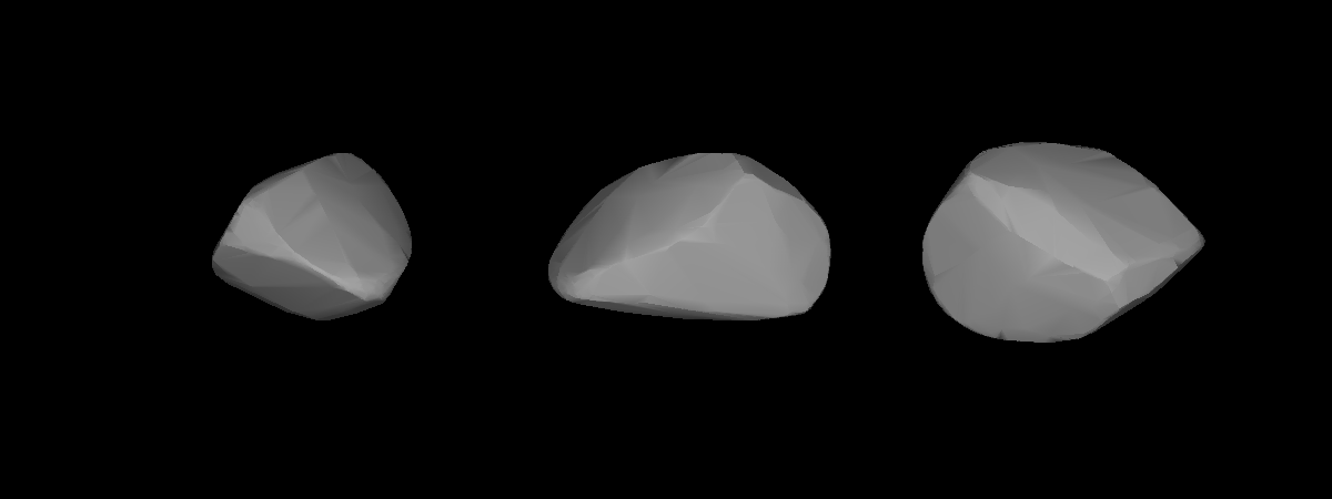 A three-dimensional model of 1963 Bezovec that was computed using light curve inversion techniques.